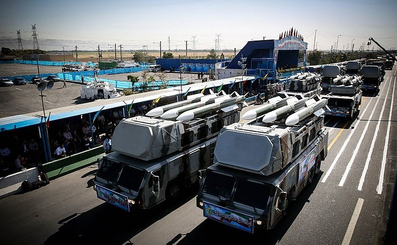 Several configurations of Iran's Raad SAM system were seen during the Iranian Armed Forces' Sacred Defense Week parade in Tehran. The first two vehicles are 3rd Khordad SAM systems, the second two SAM systems are of unidentified configuration, and the following four vehicles are Tabas systems. Please see here as a source.